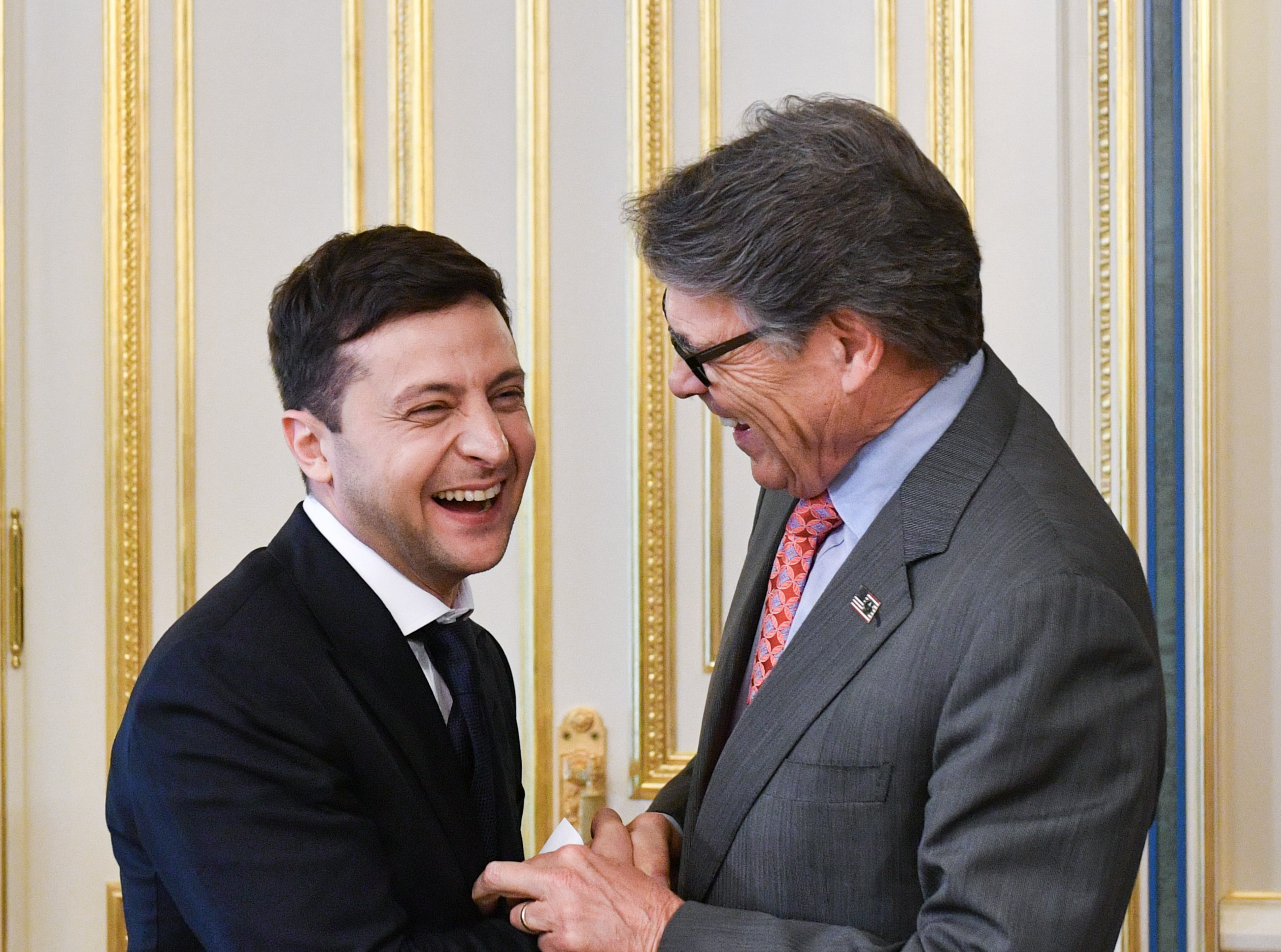 Volodymyr Zelensky with Rick Perry